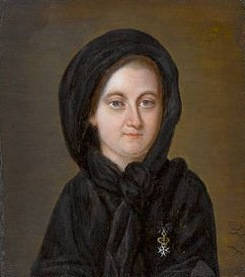 Anne d'Arpajon, comtesse de Noailles